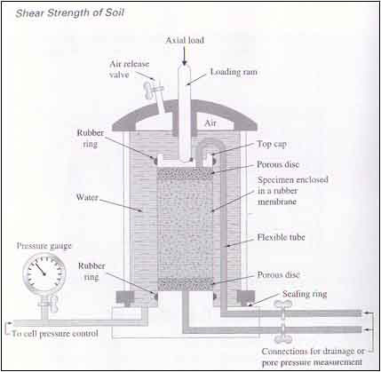 Diagram of triaxial test equipment